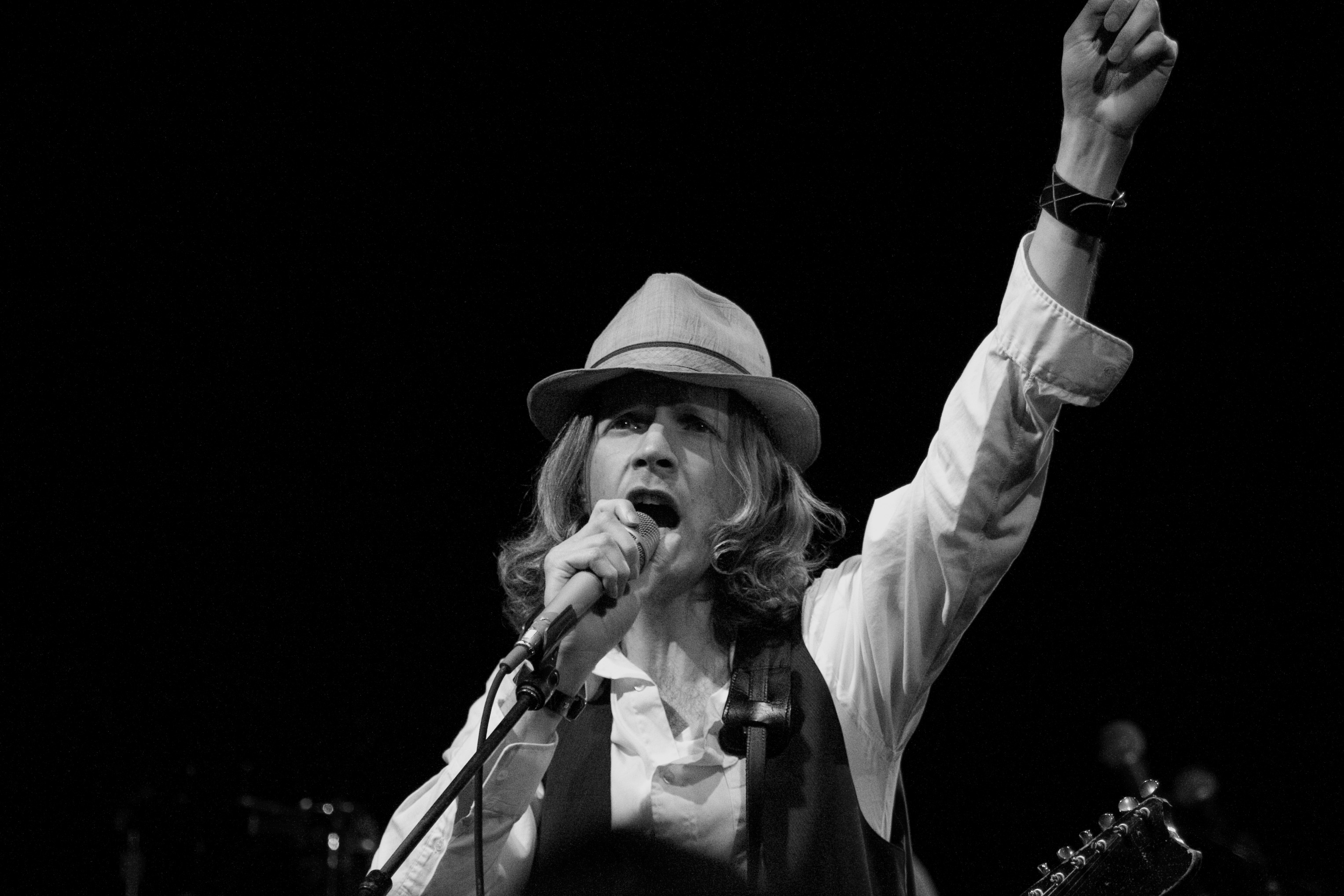 Beck performing at Yahoo! Hack Day (09/29/2006)